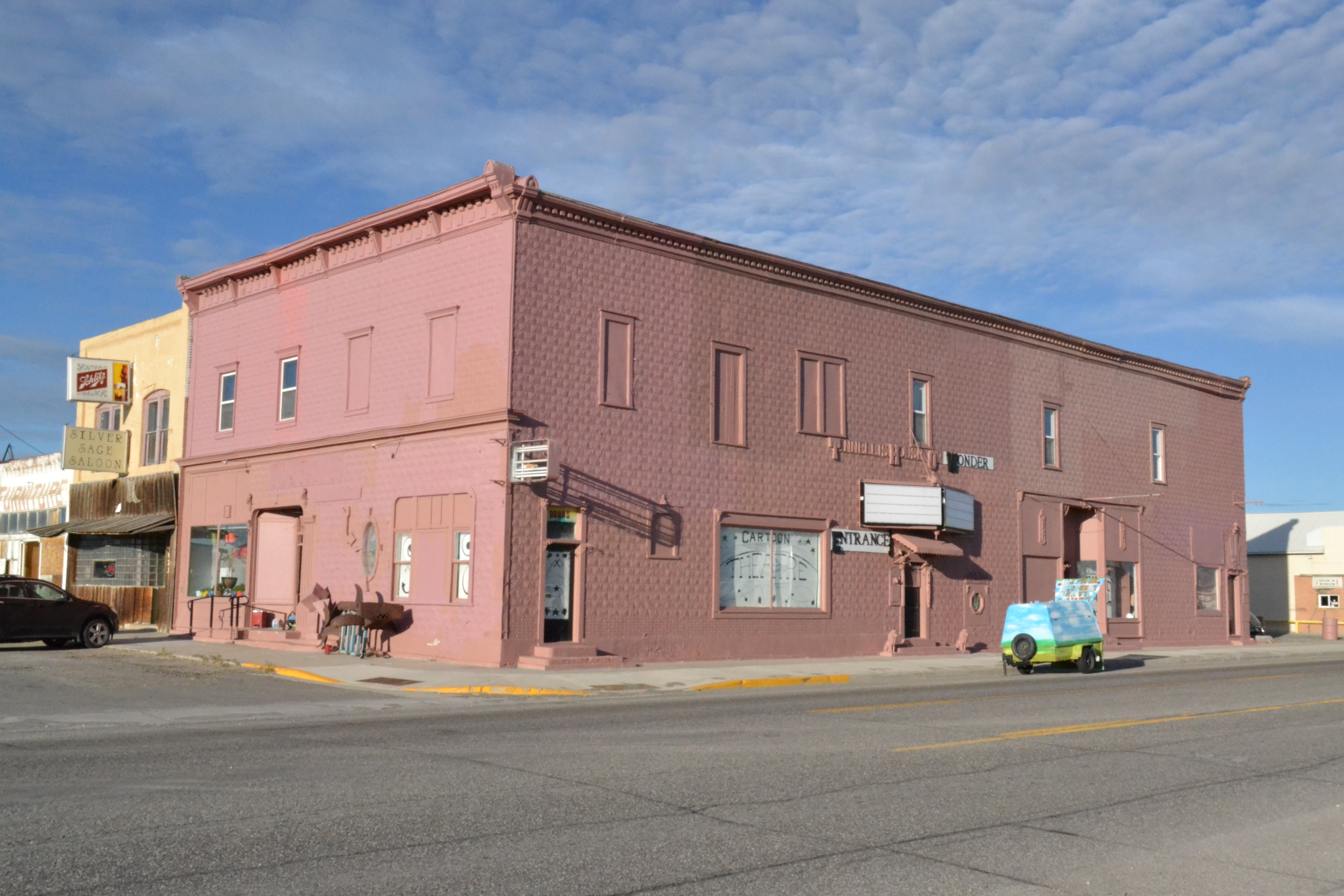 The old King Company, also known as Yellowstone Drug and Tinnelli's, in Shoshoni, Wyoming. Listed on the National Register of Historic Places.